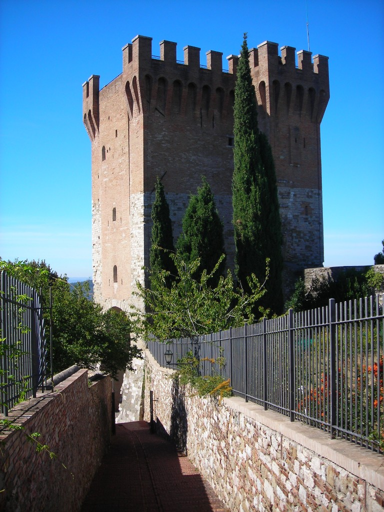 tower of Porta Sant'Angelo, Perugia, Umbria, Italy